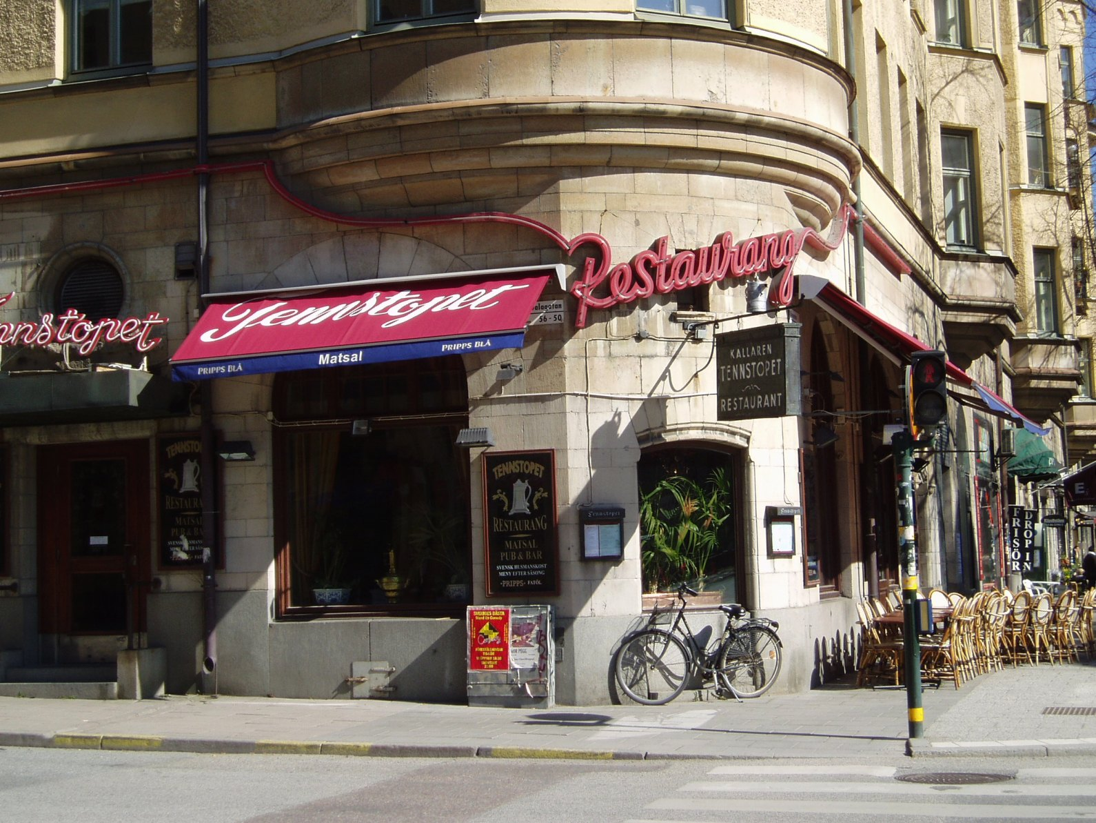 Restaurant Tennstopet, Stockholm